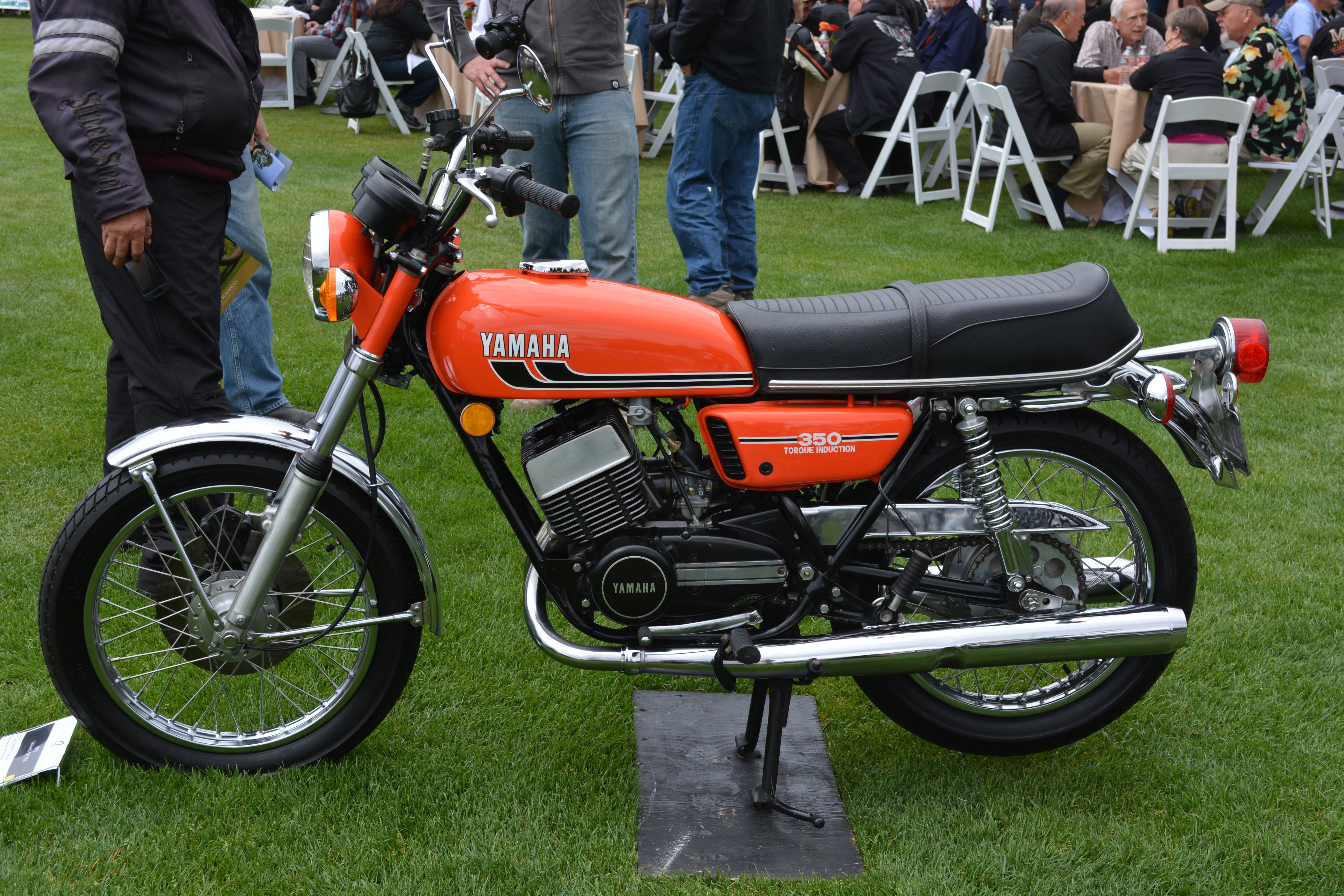 The Quail Motorcycle Gathering 2015, Carmel by the Sea, CA